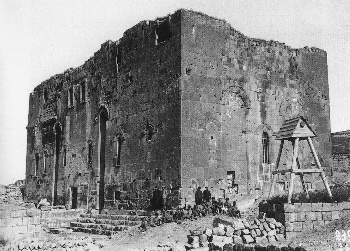 Look from the southeast